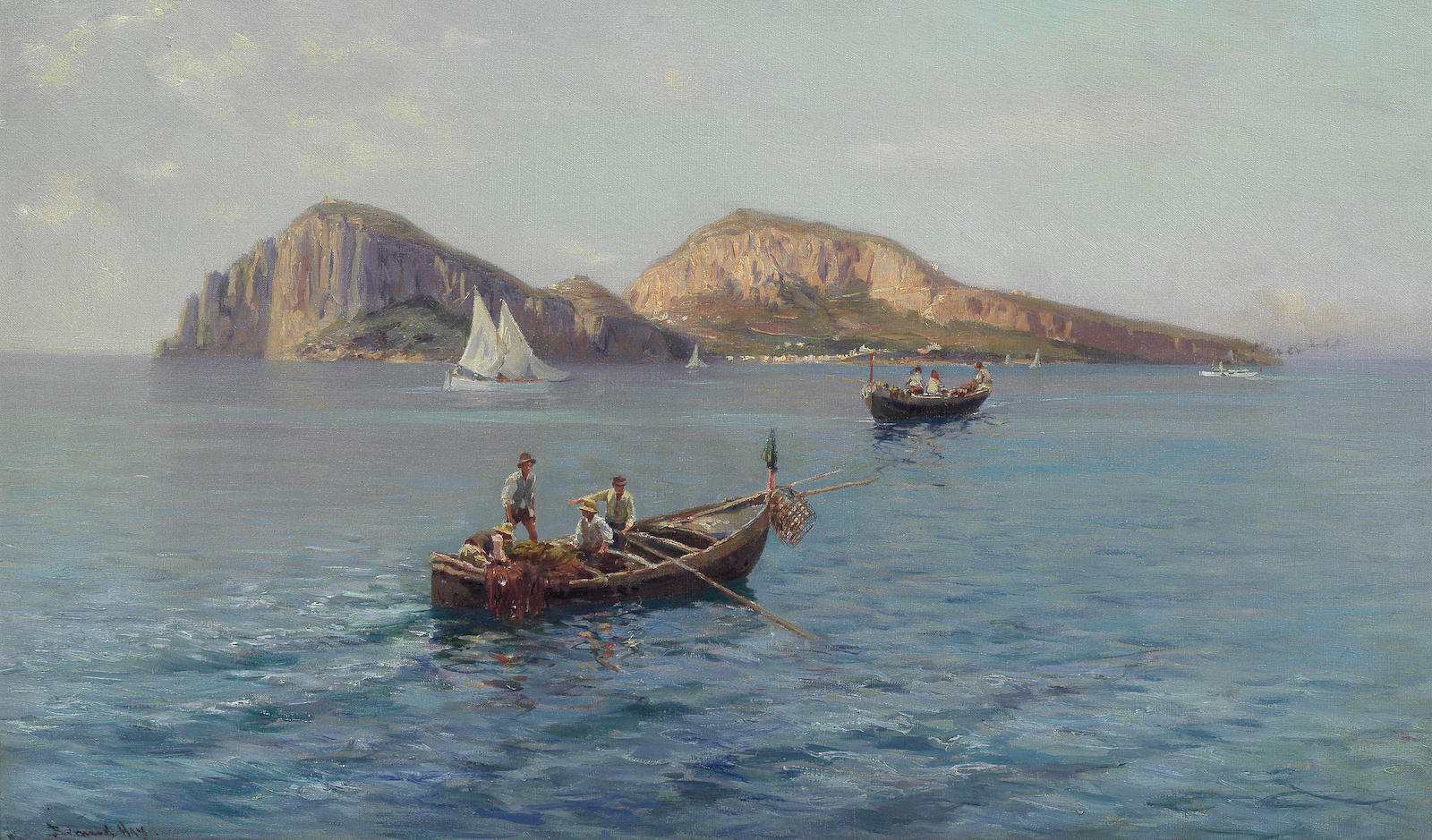 Fishing off the coast of Capri oil on canvas 31.5 x 53.5cm signed b.l.: Bernard Hay